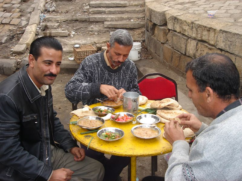 "Ful" , the classic man-in-the-street's breakfast